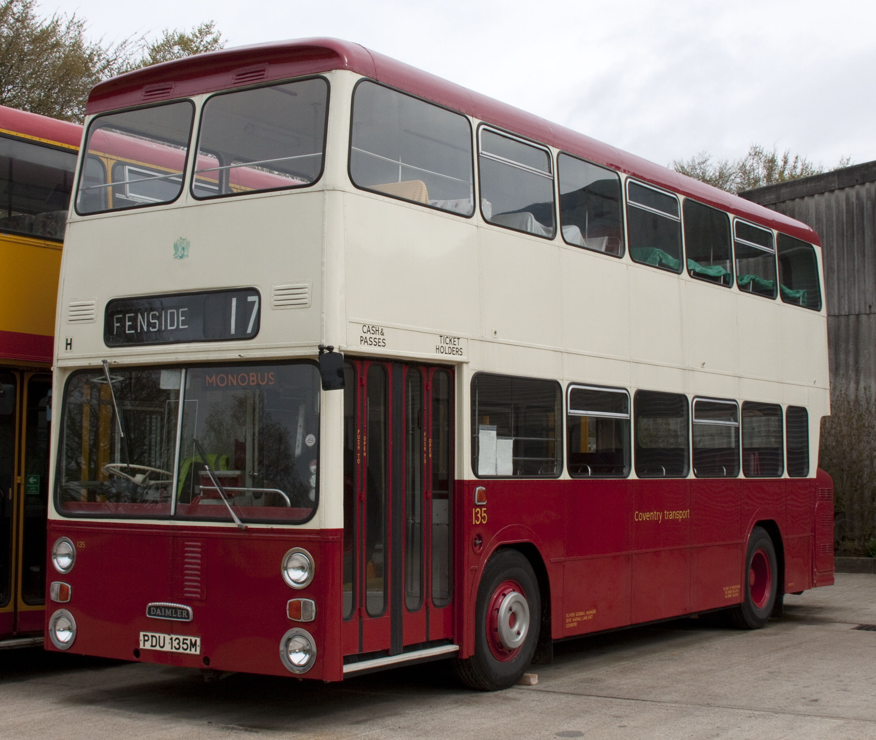 Preserved Coventry Corporation bus 135 (reg. PDU 135M), a 1973 Daimler Fleetline double-decker with East Lancs bodywork, pictured at the Wythall Transport Museum based in Wythall, Worcestershire.(DVLA) Daimler 11100cc Heavy Oil first registered 1 September 1973